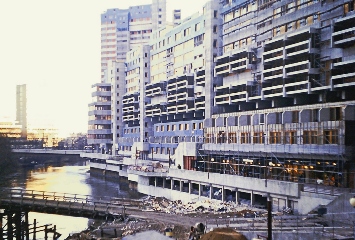 Ihmezentrum under construction 1973